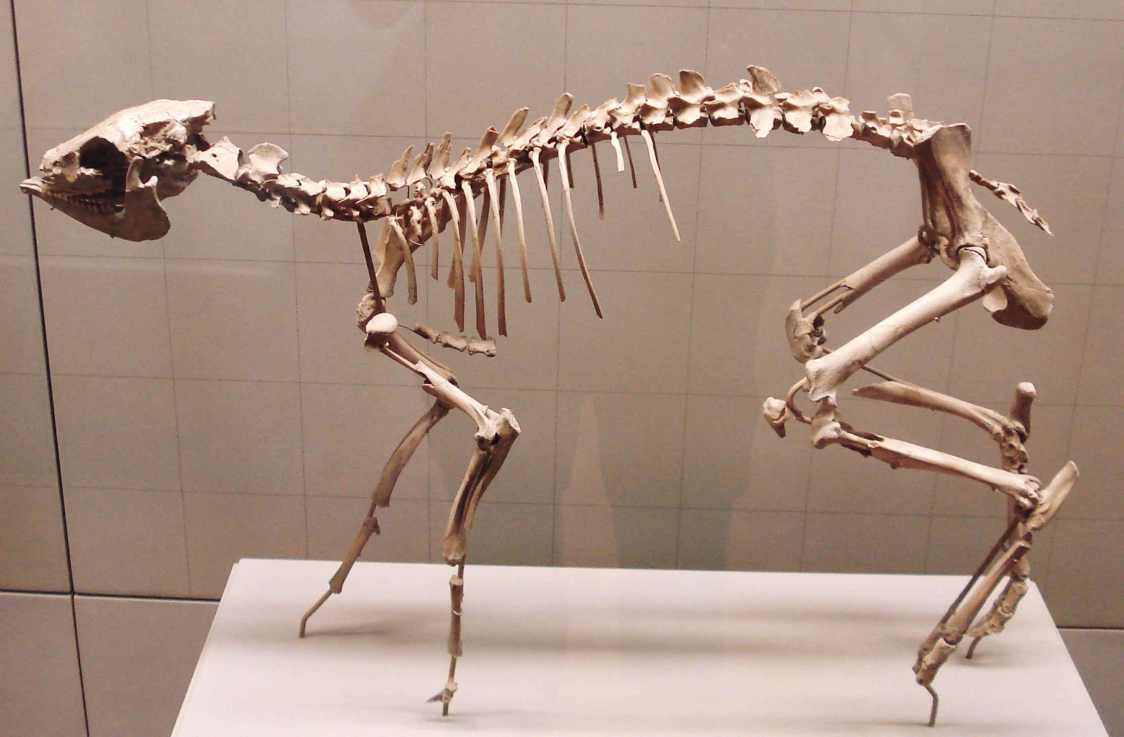 fossil of dorcatherium